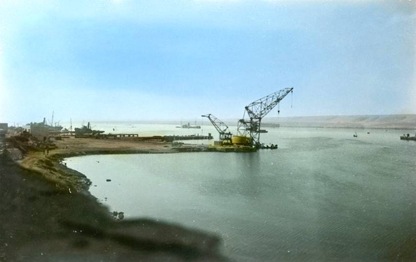 View of Tobruk harbour, Libya, in 1941.